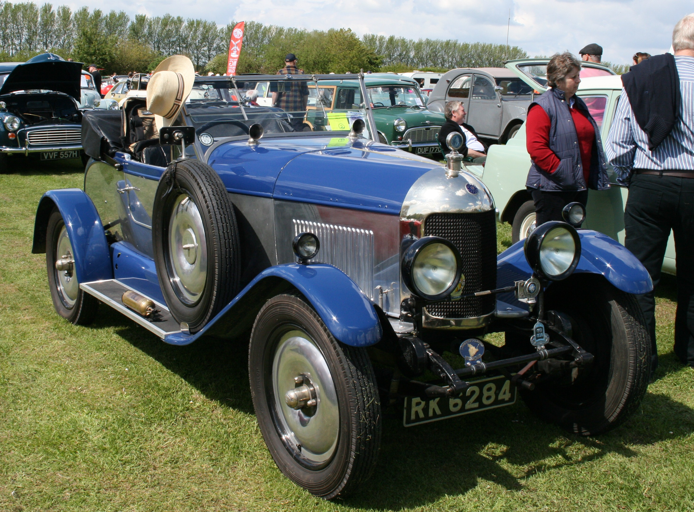 Morris Oxford 14-28 (DVLA) manufactured 1926, 1802cc "MG Super Sports 14/28 (a bullnose motorcar) Late 1924 – late 1926 (Approx 400 were made, approx 10 exist) These cars have a 1802cc four cyclinder side valve engine and had a single carburettor, which could be a Smith, SU or Solex. A wet cork clutch and a three speed manual crash gearbox, 1/2 elliptic front springs and 3/4 elliptic rear springs, in 1924/5 bolt on artillery wheels with Ace discs and in 1925/6 bolt on wire spoke wheels, 12″ drum brakes, the wheel base was 8′ – 6″ and later 9′ – 0″, the track was 4′ – 0″." The MG Car Club—Model Information